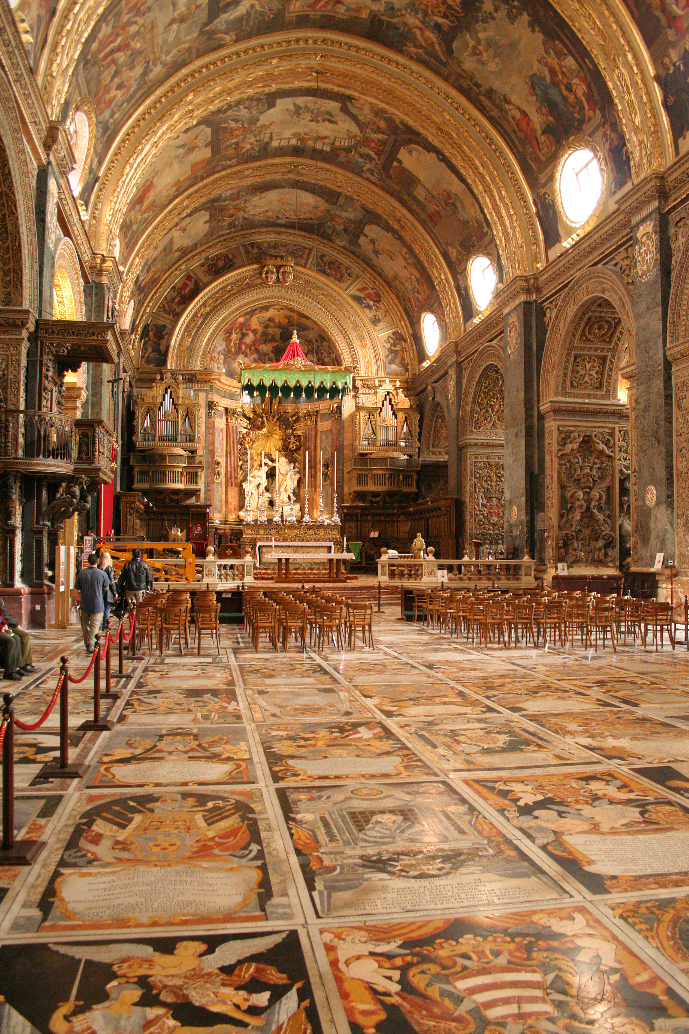 St. John's Co-Cathedral (interiour), Valletta, Malta